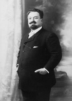 French operatic tenor Léon Escalaïs (1859-1941).